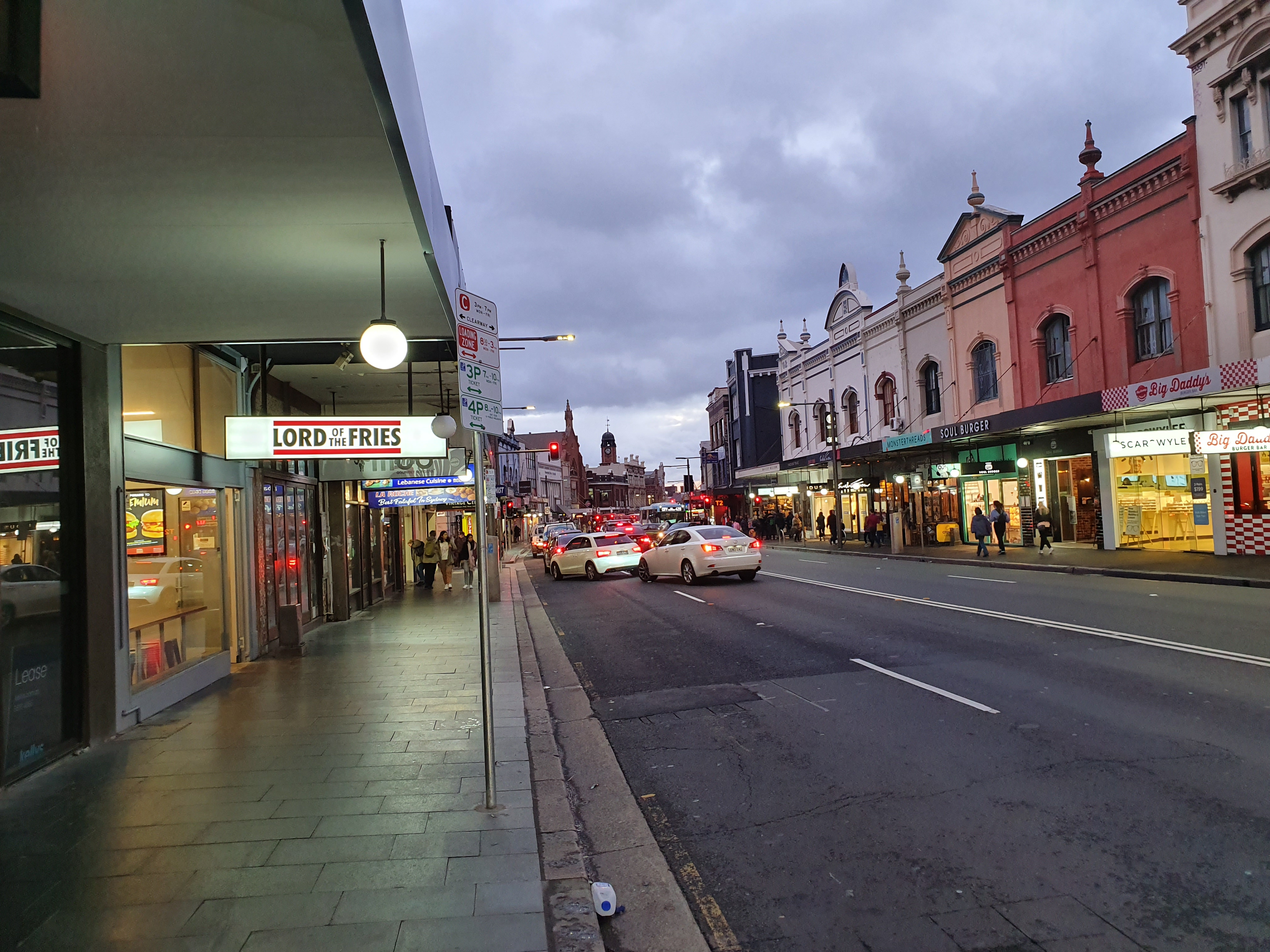 King Street shops at dusk